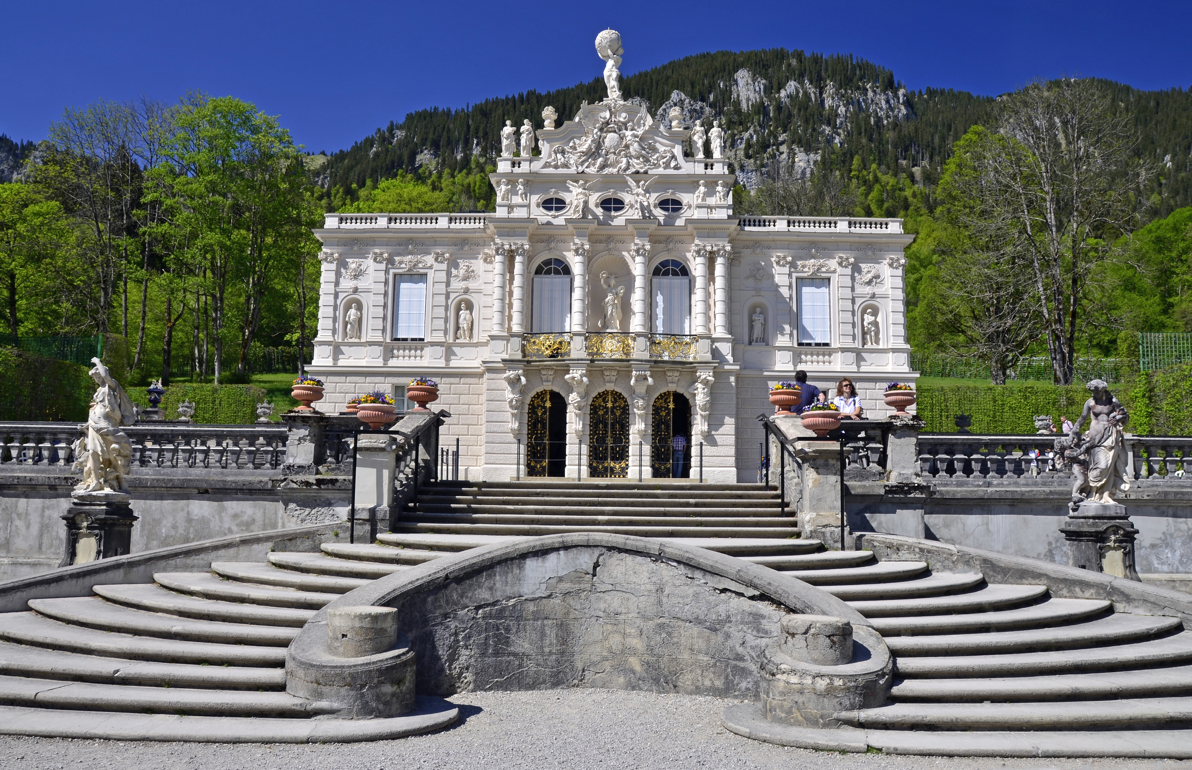 Linderhof Castle